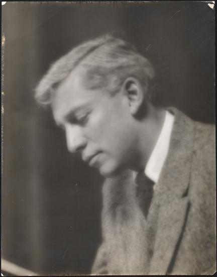 Max Eastman.